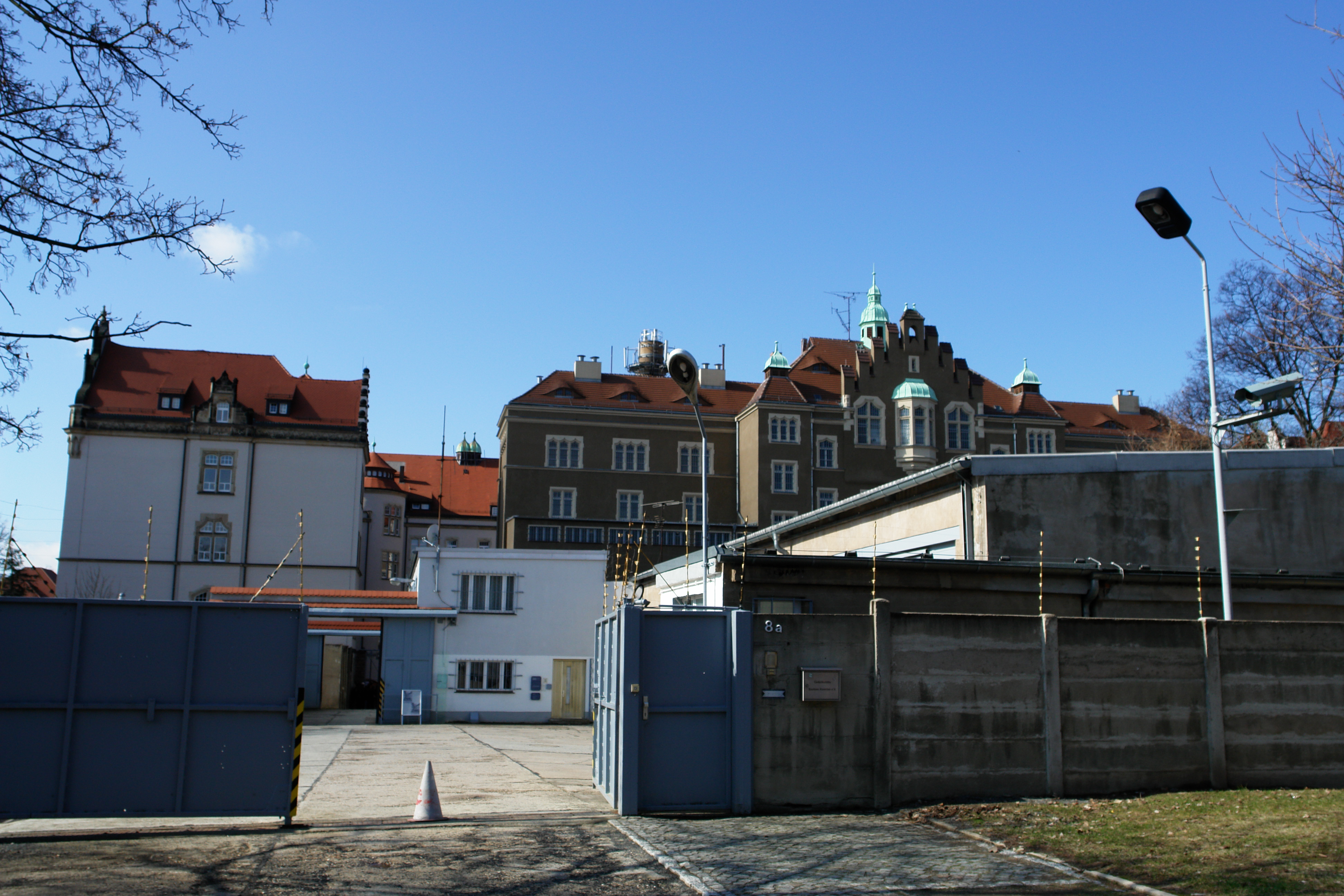 Memorial place in Bautzen in Saxony, Germany.